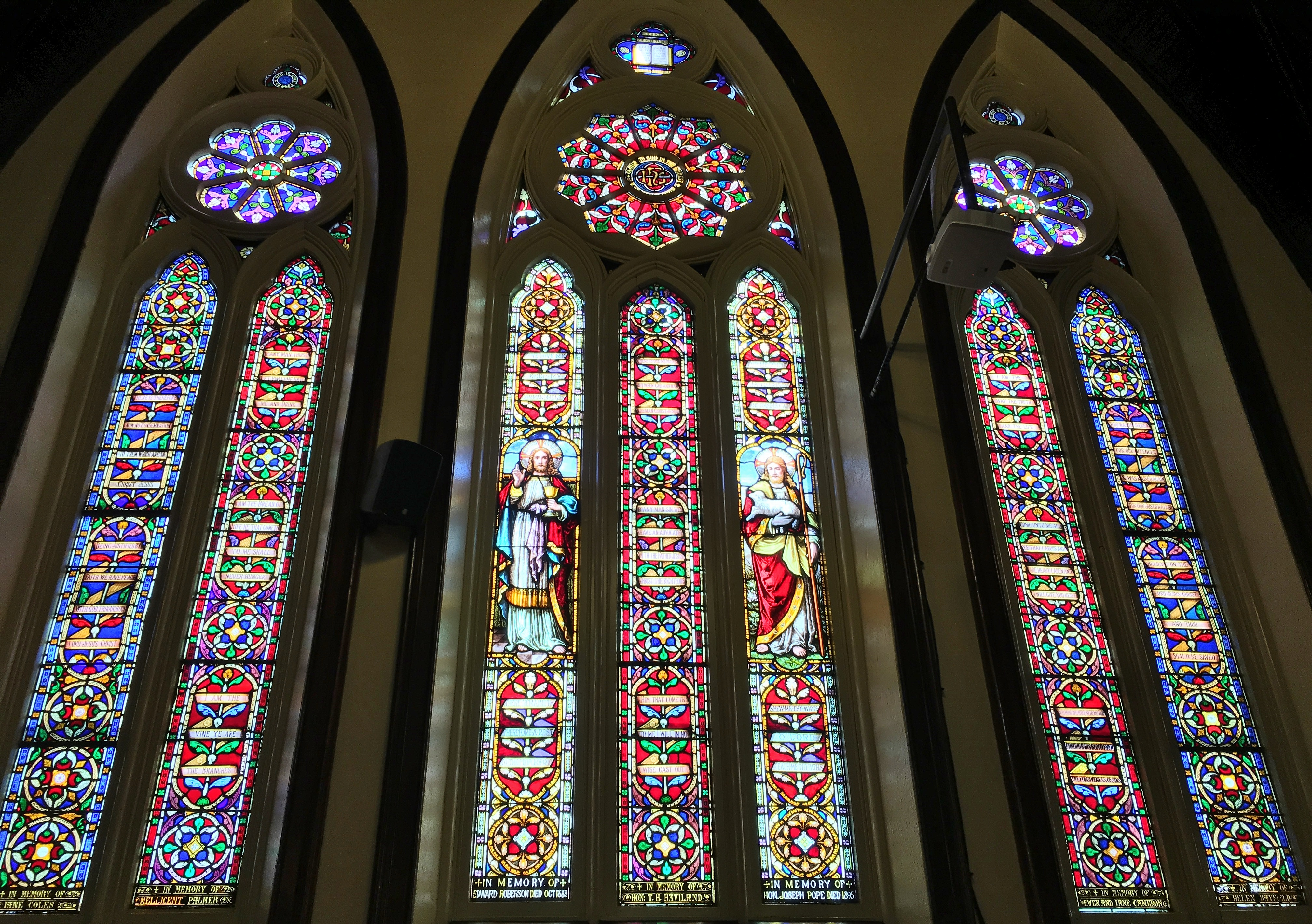 Photograph of stained glass windows at Saint Paul's Anglican Church in Charlottetown, Prince Edward Island, Canada (August 6, 2019)